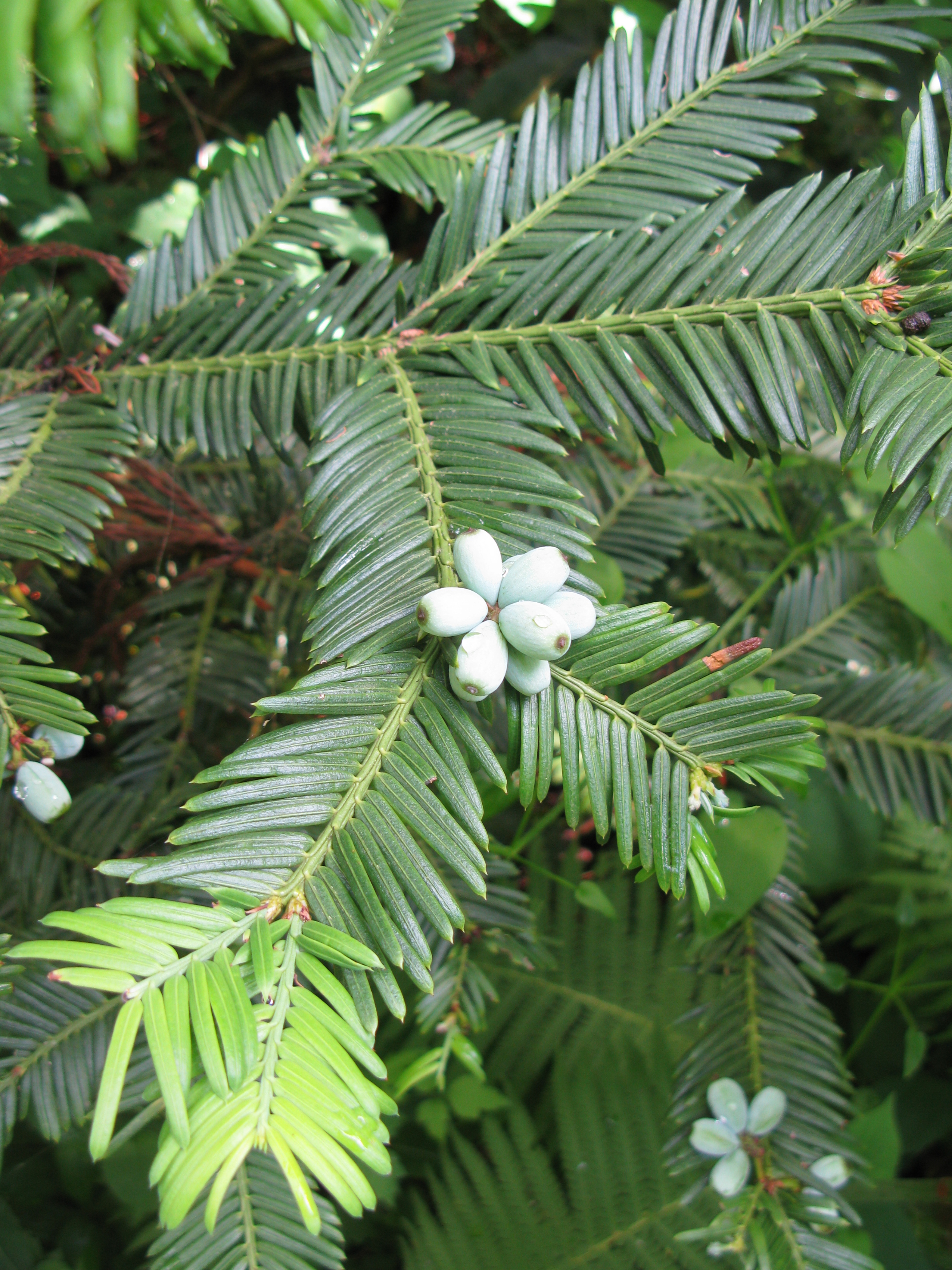 Cephalotaxus harringtonii var. nana, seed cones, Aizu area, Fukushima pref., Japan